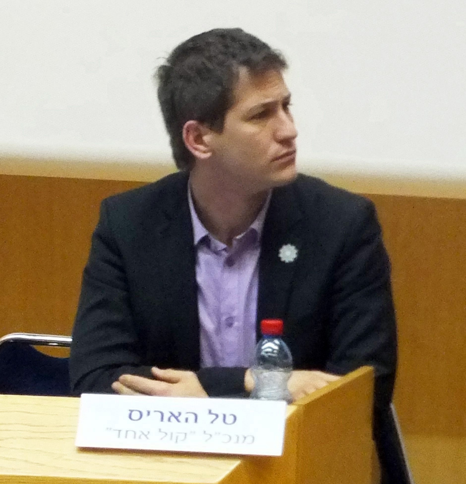 Chief director of peace organization "One Voice" Tal Harris.